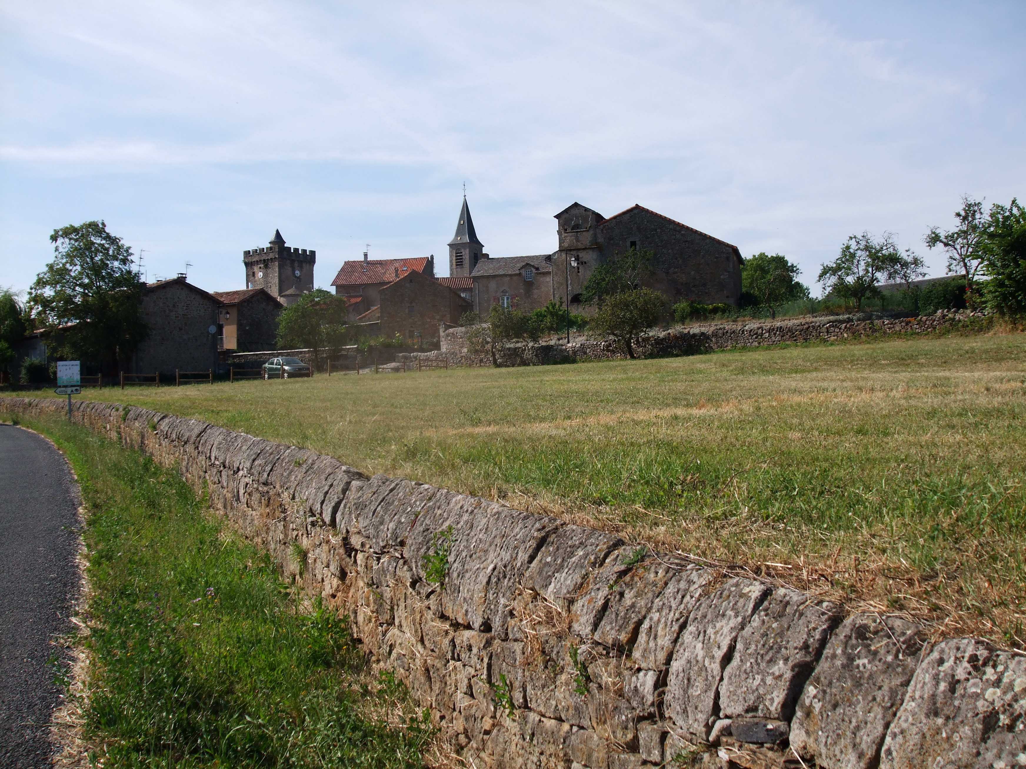 Saint Victor is a village in the commune of Saint-Victor-et-Melvieu, in the Aveyron, France.